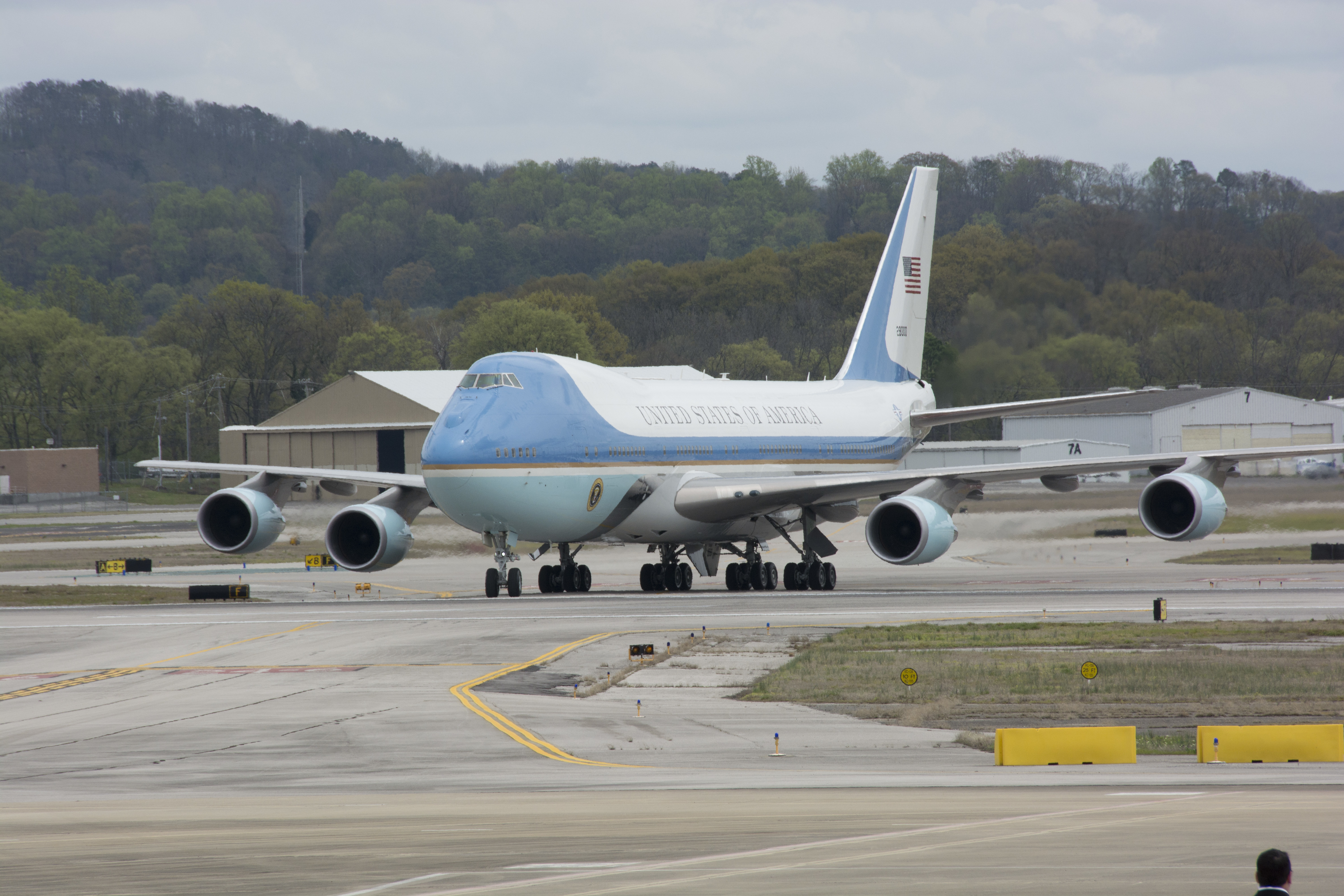 The President of The United States, Barack Obama arrives in Birmingham, Ala., today March 26, 2015. Obama is greeted by Alabama Gov. Robert Bentley, Birmingham Mayor William Bell and Col. Robert "Scott" Grant, Vice Commander of the 117th Air Refueling Wing. The president came to Birmingham to visit Lawson State Community College where he gave a speech on economic issues. (U.S. Air National Guard photo by Senior Master Sgt. Ken Johnson/Released)